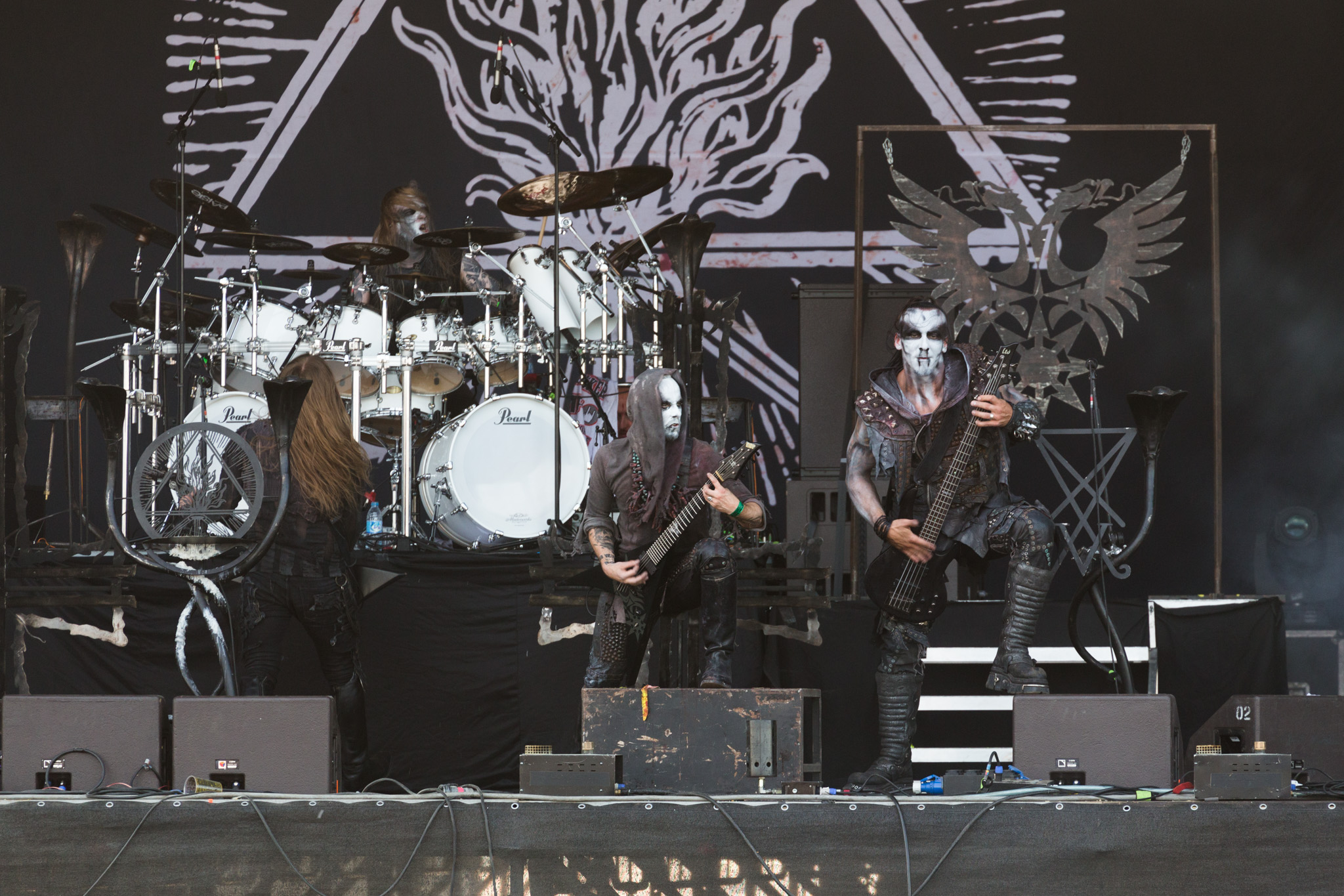 Behemoth playing at the With Full Force Festival, July 2014